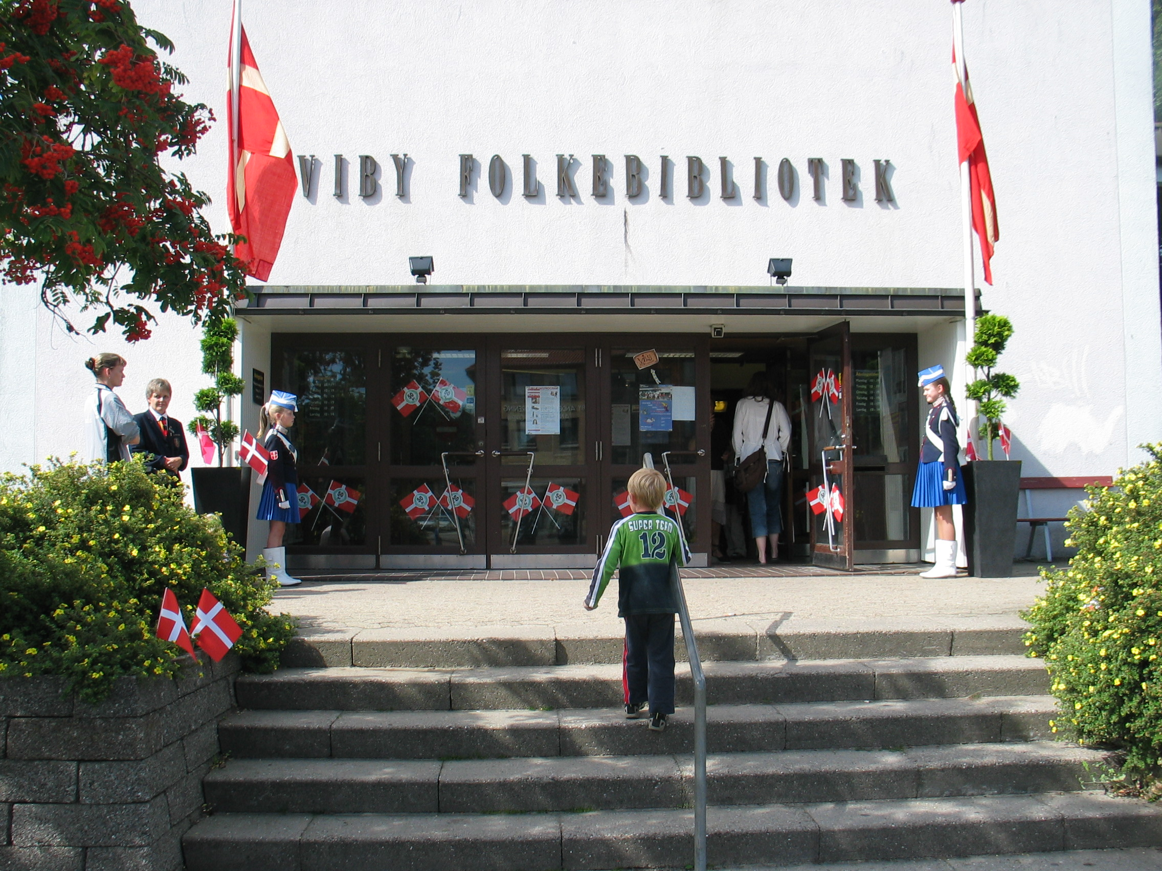 Viby Library (Århus, Jutland, Denmark) 50 years birthday August 30, 2006